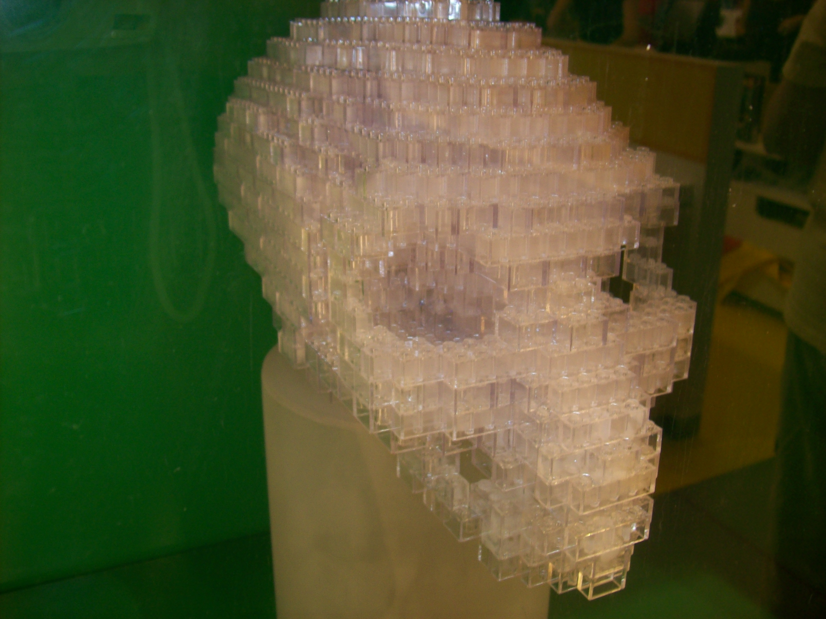 Another Pic of the Lego Crystal Skull.